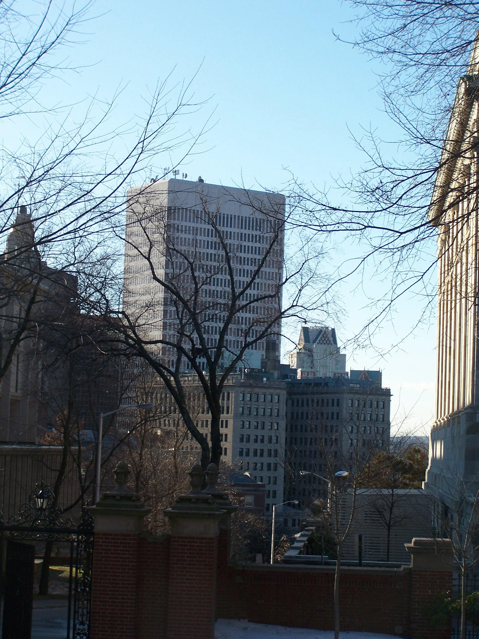 One Financial Plaza and the skyline of Providence, Rhode Island, USA from Brown University